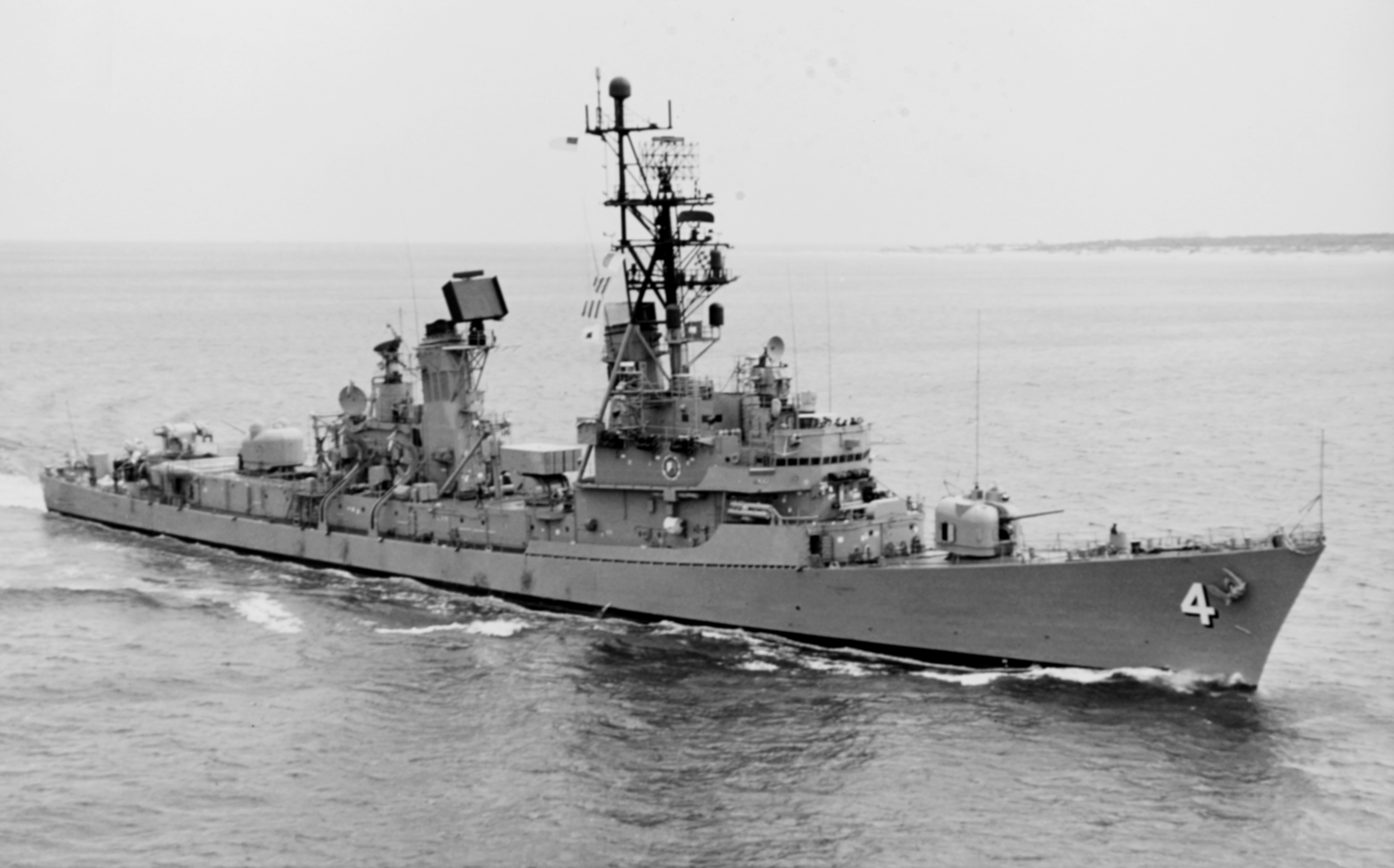 The U.S. Navy guided missile destroyer USS Lawrence (DDG-4) underway near Cape Henry, inbound to Norfolk, Virginia (USA), on 3 May 1973. Note the Destroyer Squadron 22 insignia painted on the side of her forward superstructure.